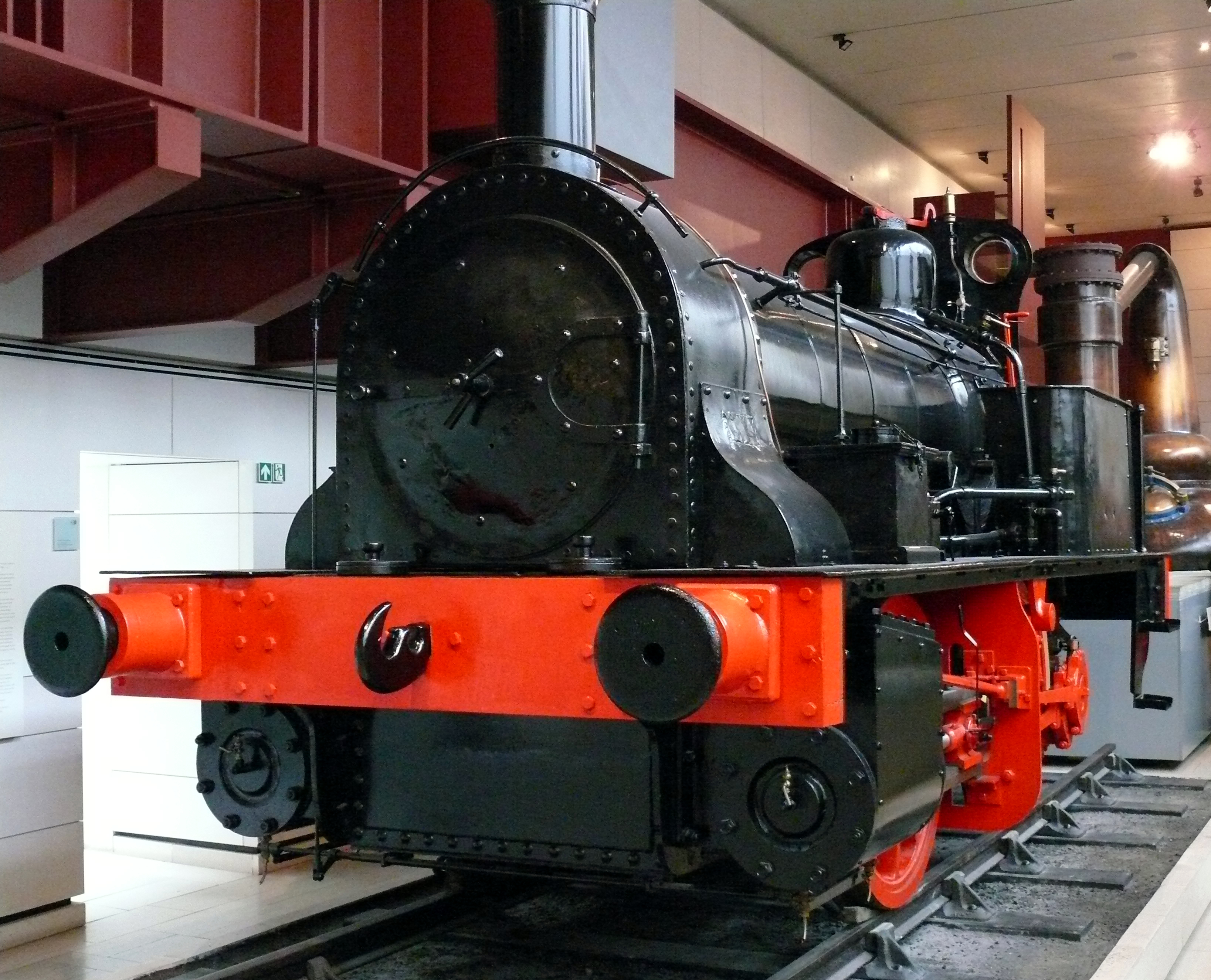 The Ellesmere locomotive was built by Hawthorns and Co. of Leith in 1861 for Howe Bridge Colliery near Atherton in Lancashire. When the colliery closed in 1957, it was the oldest working steam locomotive in Britain. It is one of only two remaining examples of locomotive building in the east of Scotland. Now in the National Museum of Scotland, Edinburgh.